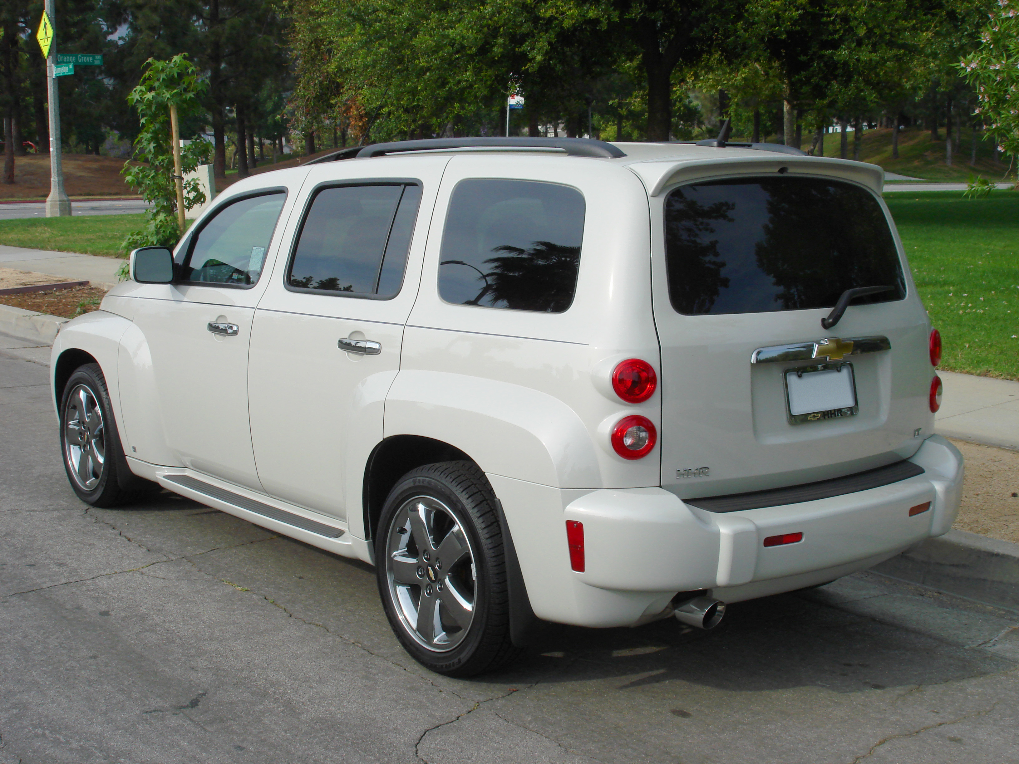 2007 Chevrolet HHR 2LT Special Edition. Camera used was a Sony Ericsson DSC-W100.